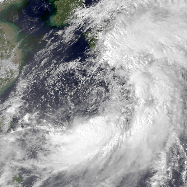 Tropical Storm Luke on September 18, 1991. At the time Luke had winds of 54.7 knts (63 mph, 101.4 kph), 1-min sustained and a pressure of 980 mbar. Luke was about 135 miles away from land. This image was taken by the NOAA-11 Satellite.